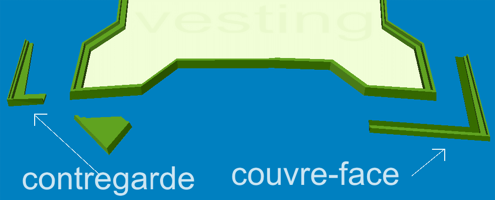 Fortifications. Example of a contregarde (left) and a Couvre_face (right)